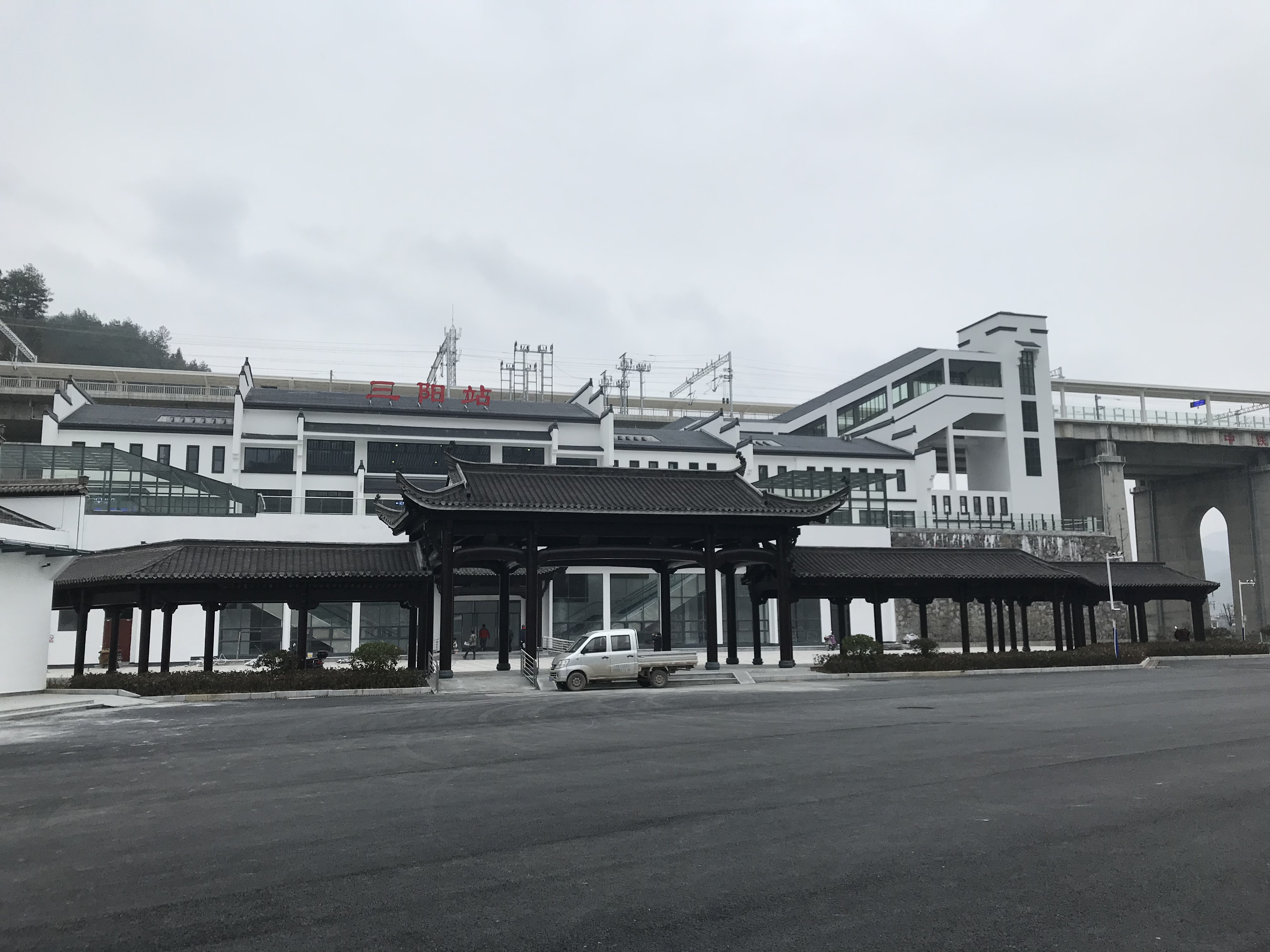 Taken on the Front square which there is an additional "Shanmen"